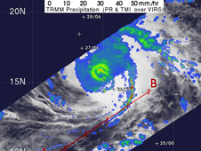 A TRMM rainfall image of Typhoon Nida